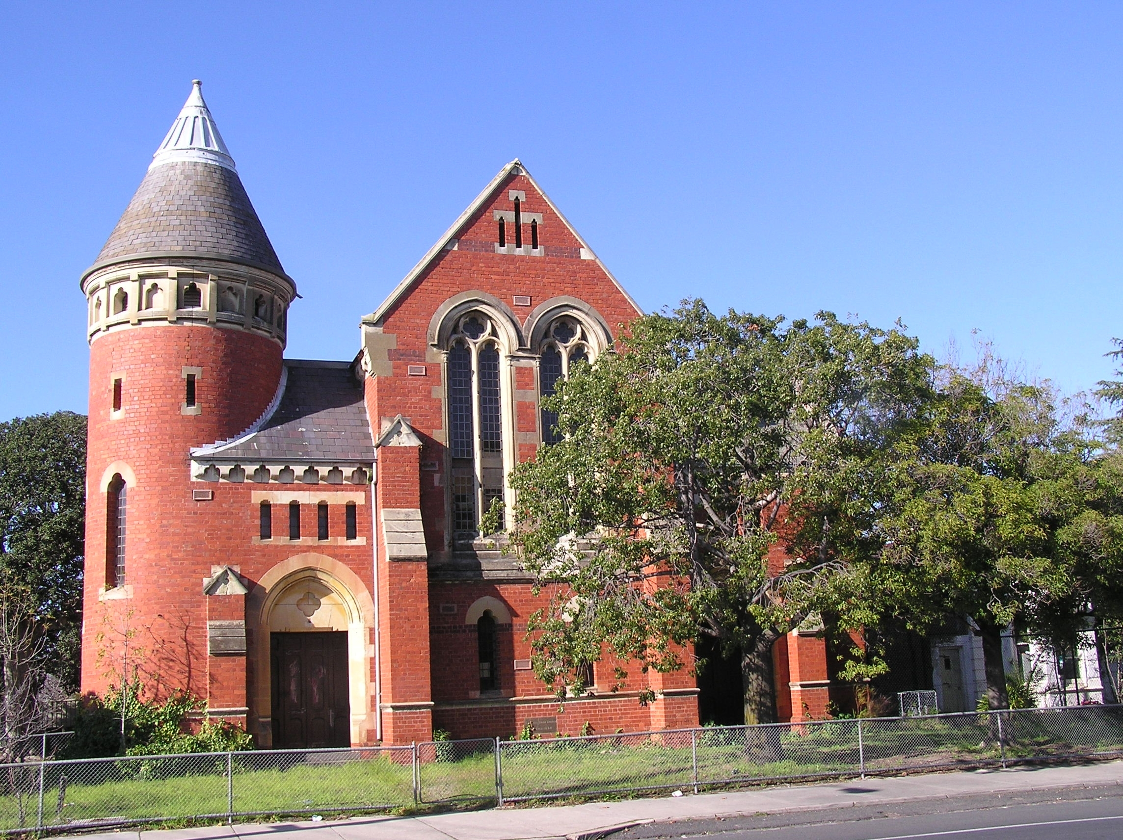 Elsternwick Congregational Church, exterior